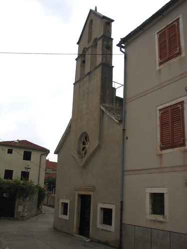 Church of St. John (sv. Ivan) in Stari Grad, Hvar